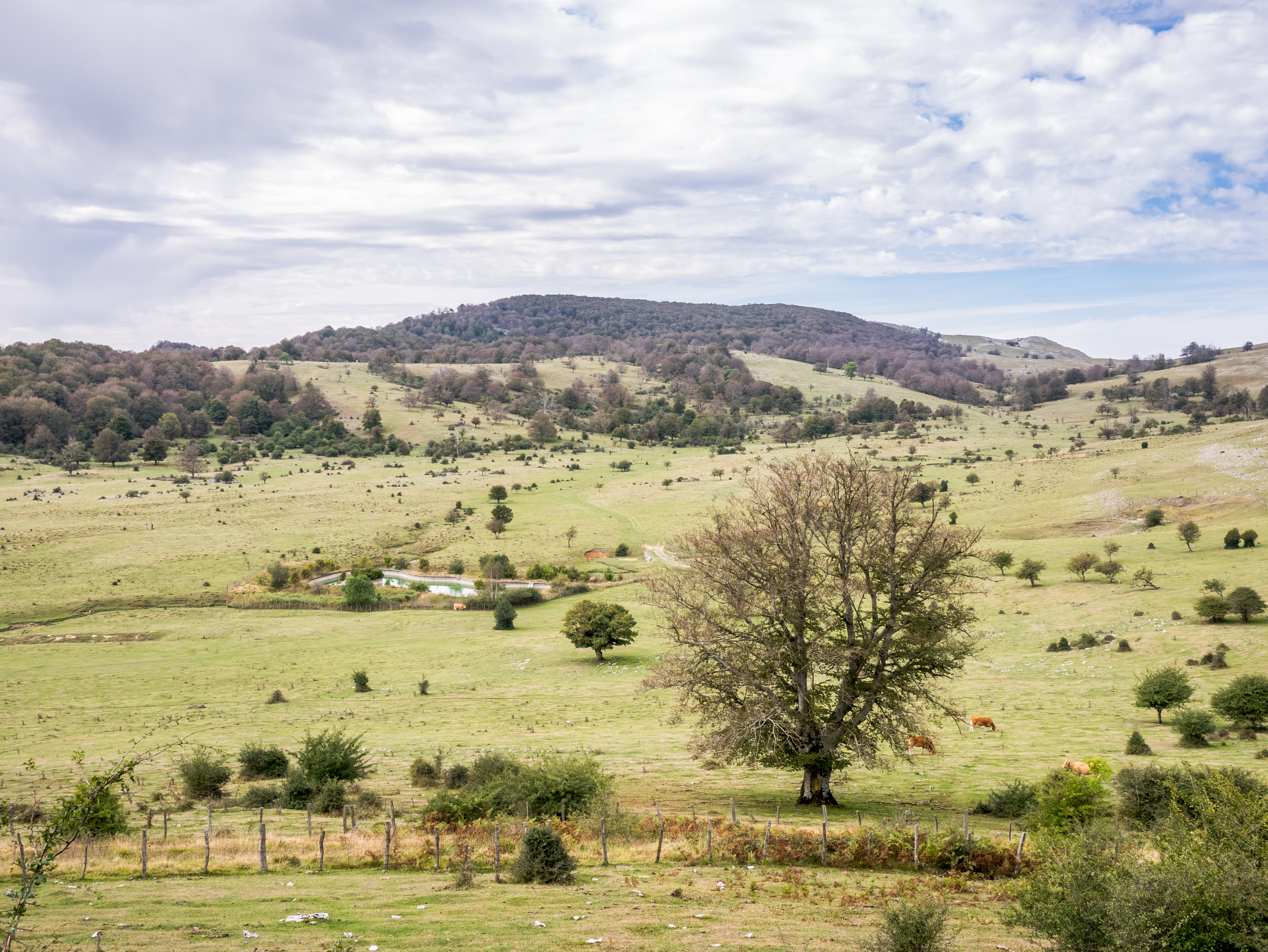 Mountain pastures "Rasos de Legaire" in the Entzia mountain range. Álava, Basque Country, Spain